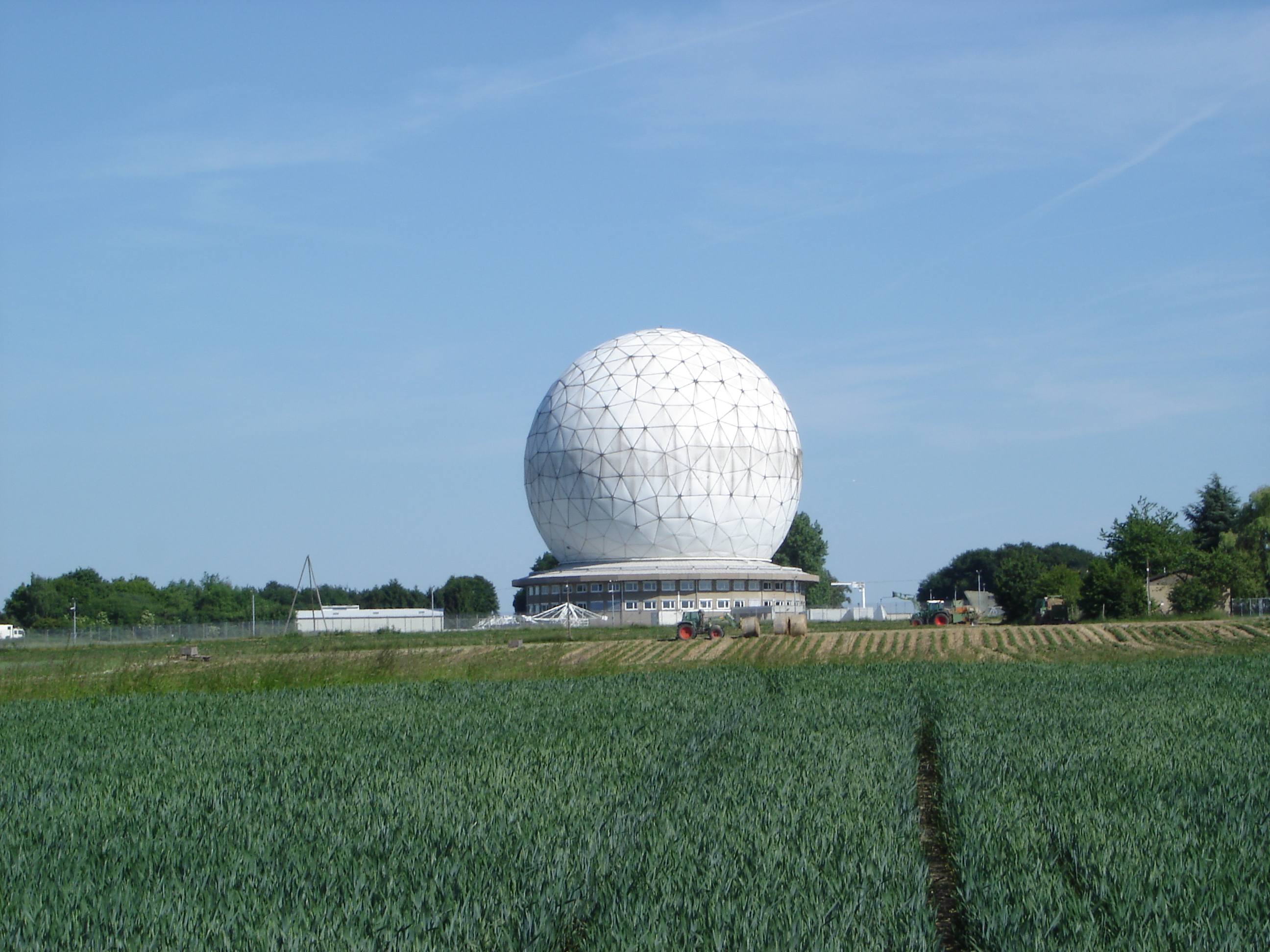 Radome in Wachtberg near Bonn, Germany